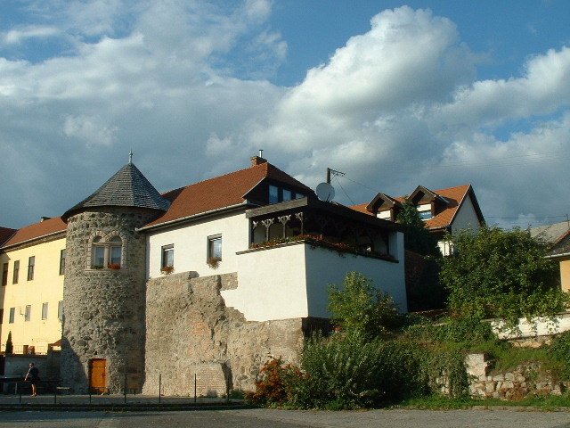 The Pointed Tower. Located at the north-most corner turret of the town wall from the Middle Age. It is part of a residential building, with cylinder-shape and cone-shaped roof. - 12 Liszt Ferenc Promenade, Vác